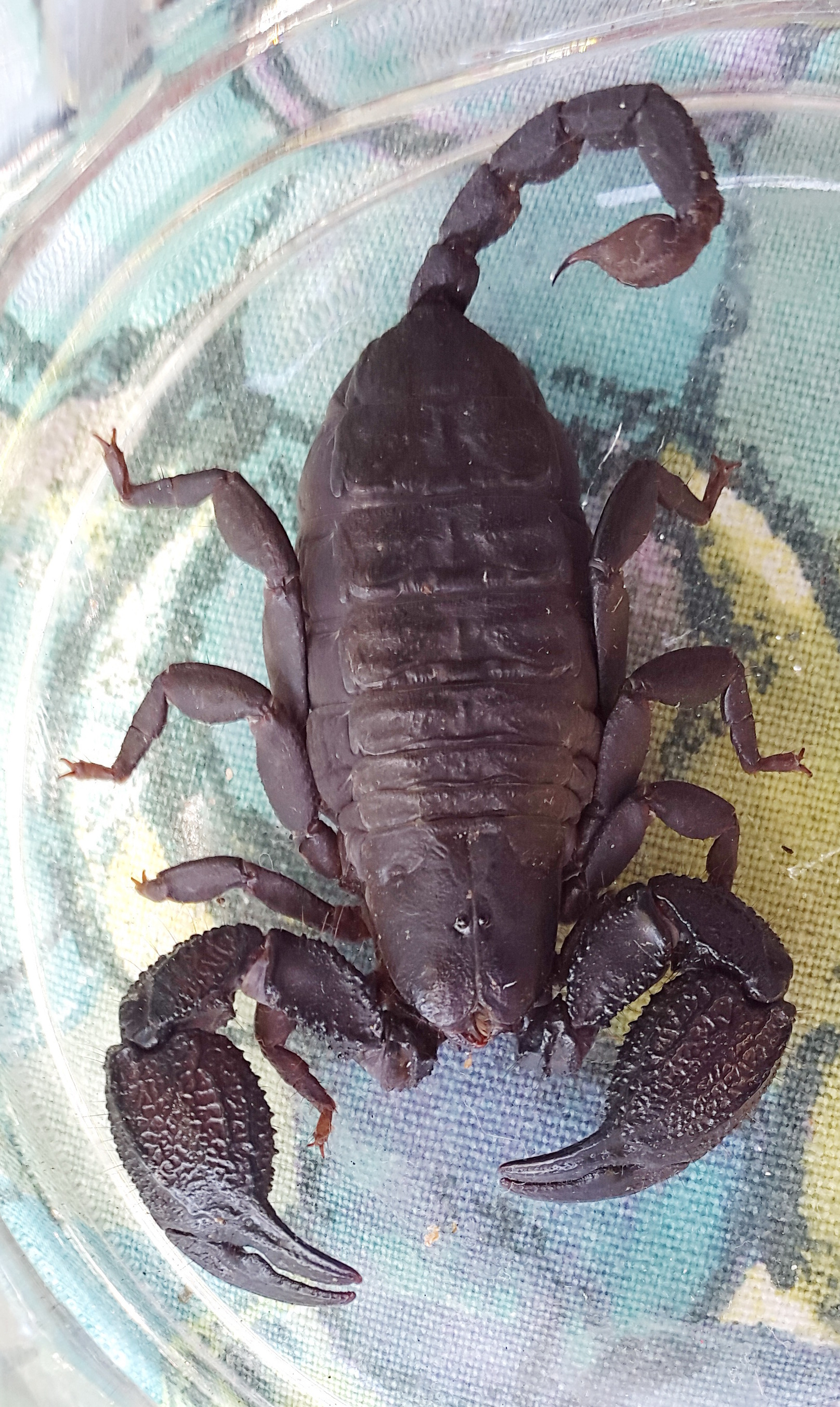 Opisthacanthus capensis - Nature's Valley, South Africa